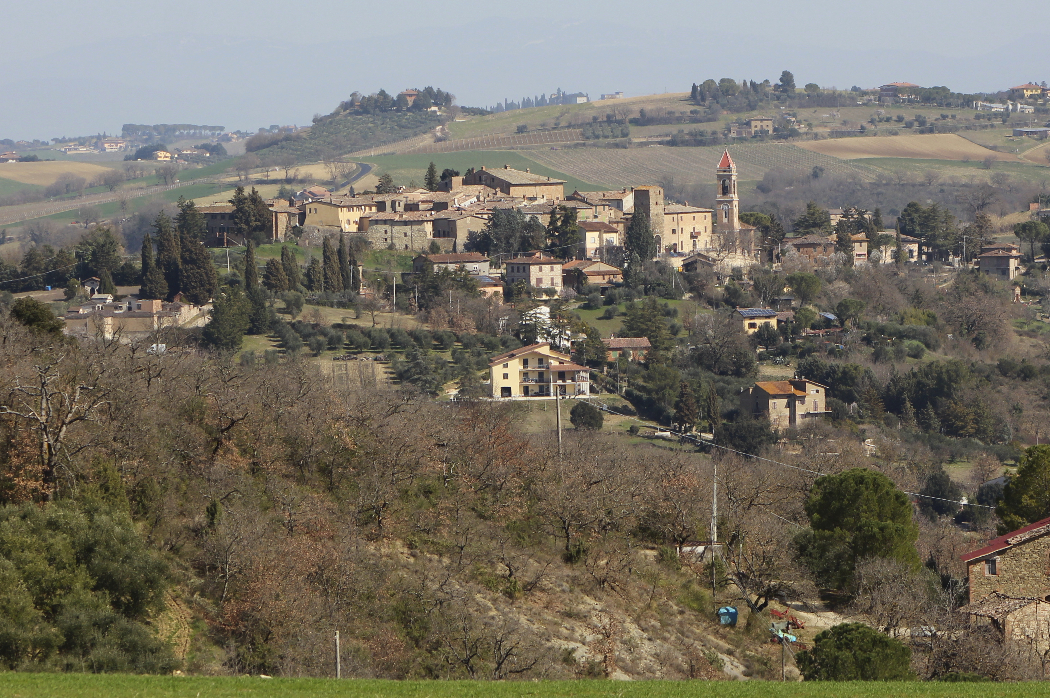 Panorama of Compignano, hamlet of Marsciano, Province of Perugia, Umbria, Italy